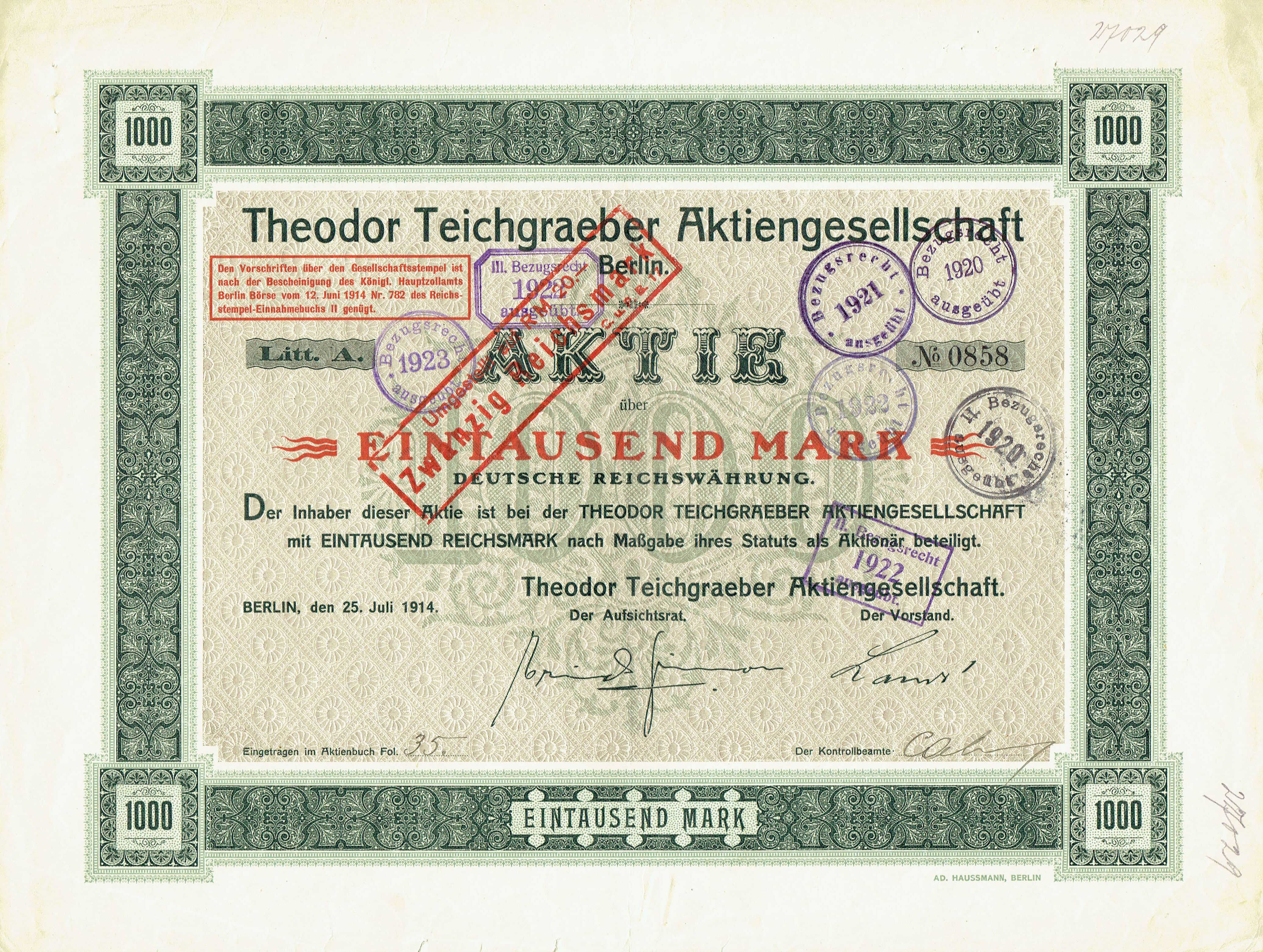 Share of the Theodor Teichgraeber AG, issued 25. July 1914